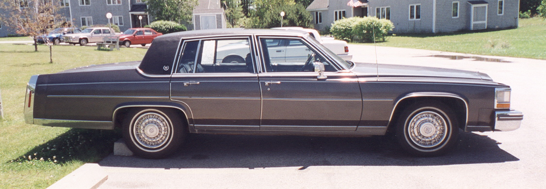 1982 Cadillac Fleetwood Brougham.